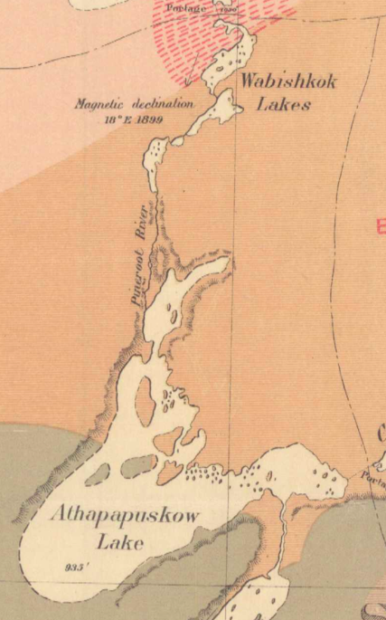 Section of the map "Geological Map of portions of Saskatchewan, Athabaska, and Keewatin Districts 1902" A map showing the explored areas of modern day Manitoba and Saskatchewan circa 1902